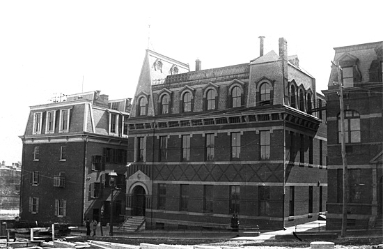 1885 photograph of Hopkins Hall, on the original downtown Baltimore campus of The Johns Hopkins University